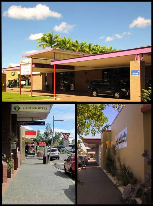 A collage of the Proserpine Entertainment Centre, Main St & Council Offices